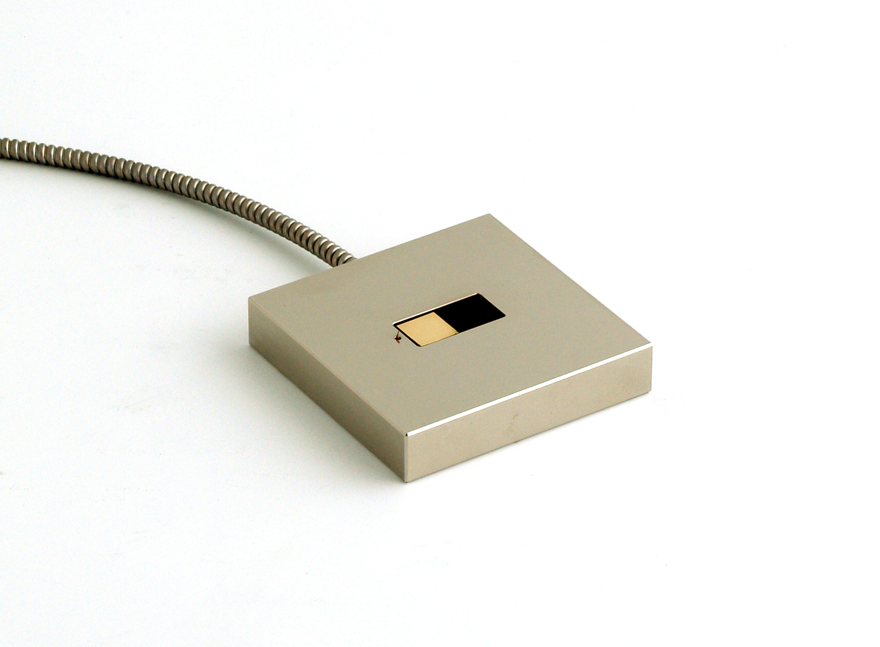 Radiative and Convective (RC01) heat flux sensor.